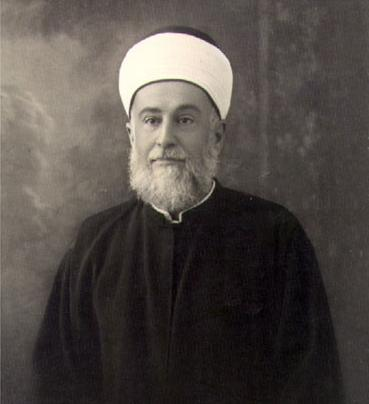 Portrait of the Grand Mufti of Jerusalem Hussam ad-Din Jarallah